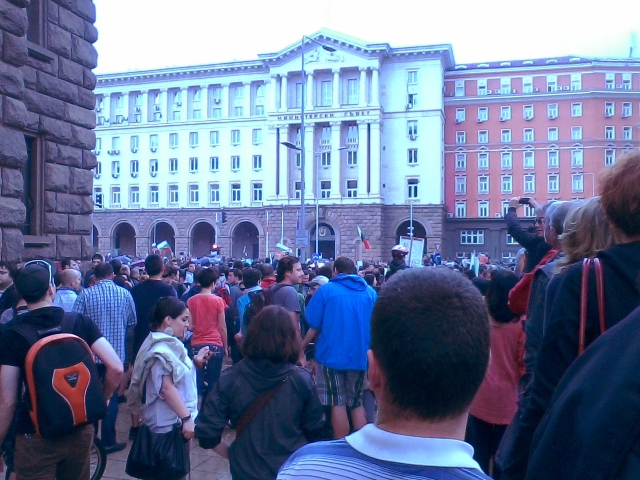 Sofia protests on 14 June 2013 against the election of Deljan Peevski as a head of Bulgarian security agency DANS. Protests are also scanning against the socialist government of Oresharski and Stanishev.